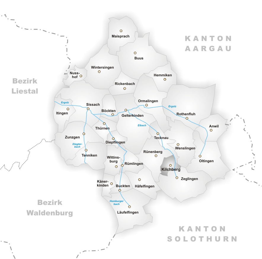 Municipality Kilchberg